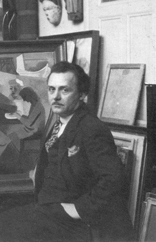 Edmond Boissonnet, photograph of André Lhote